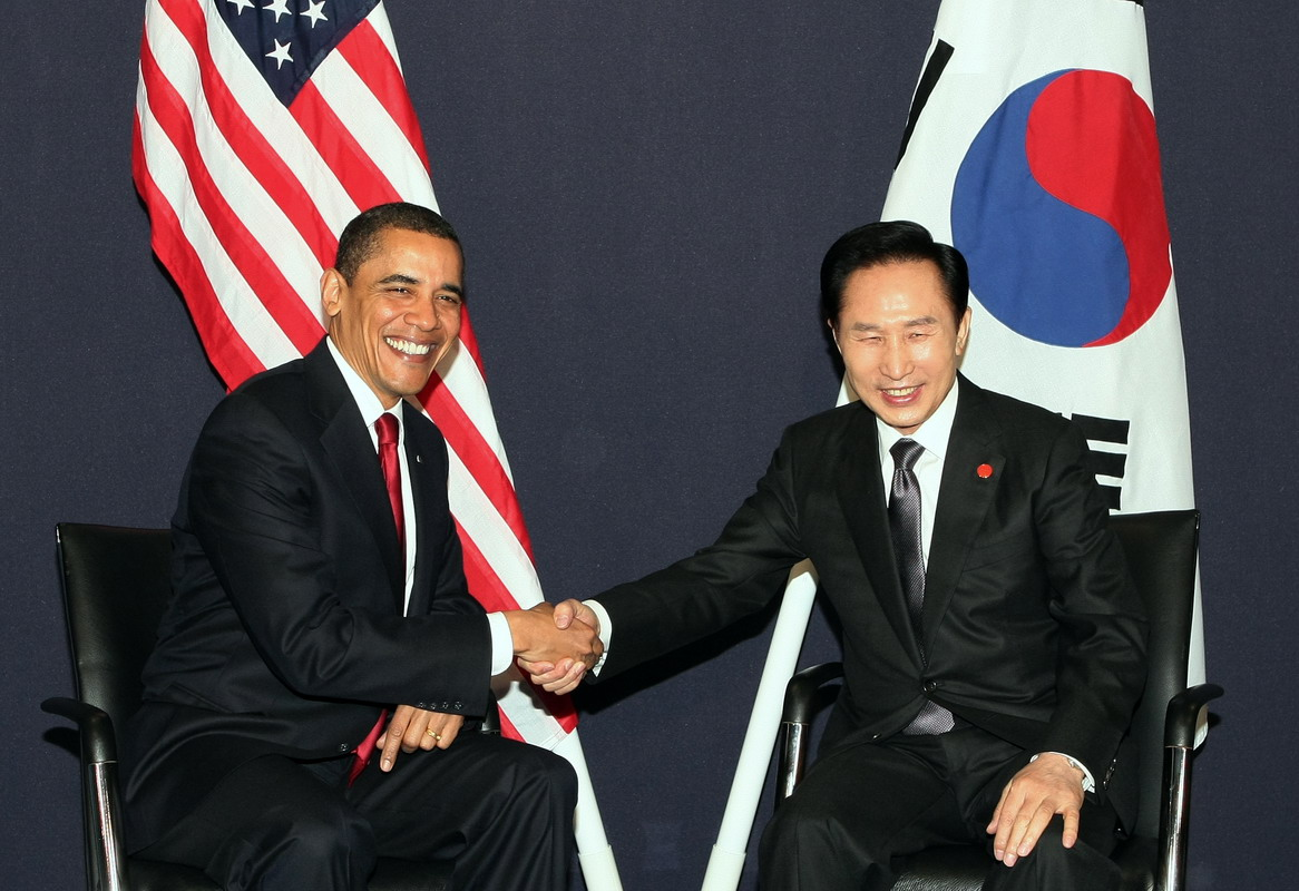 U.S. President Barack Obama meeting with President Lee Myung-bak at the G20 summit on April 2, 2009 in London